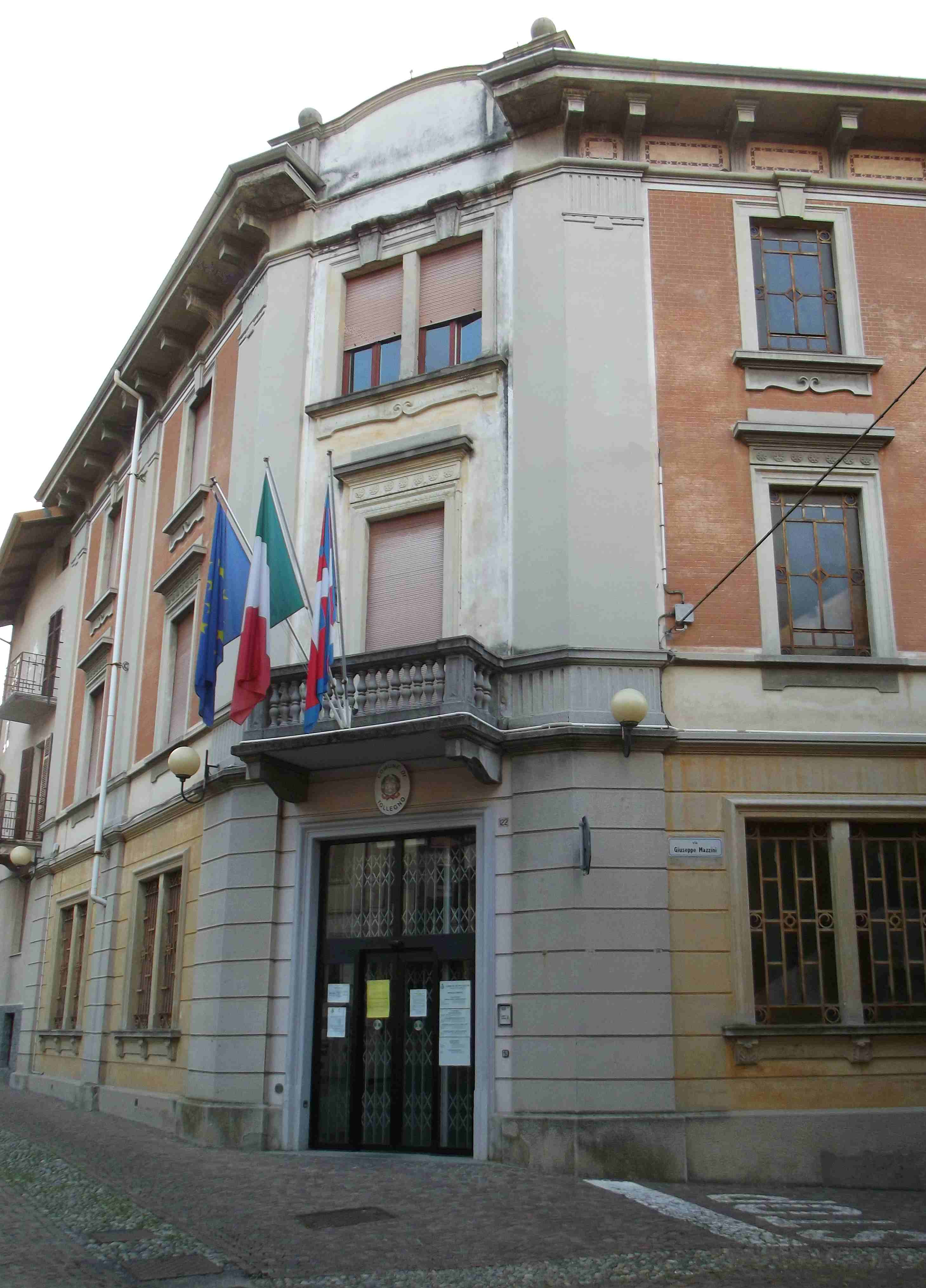 Tollegno (BI, Italy): town hall